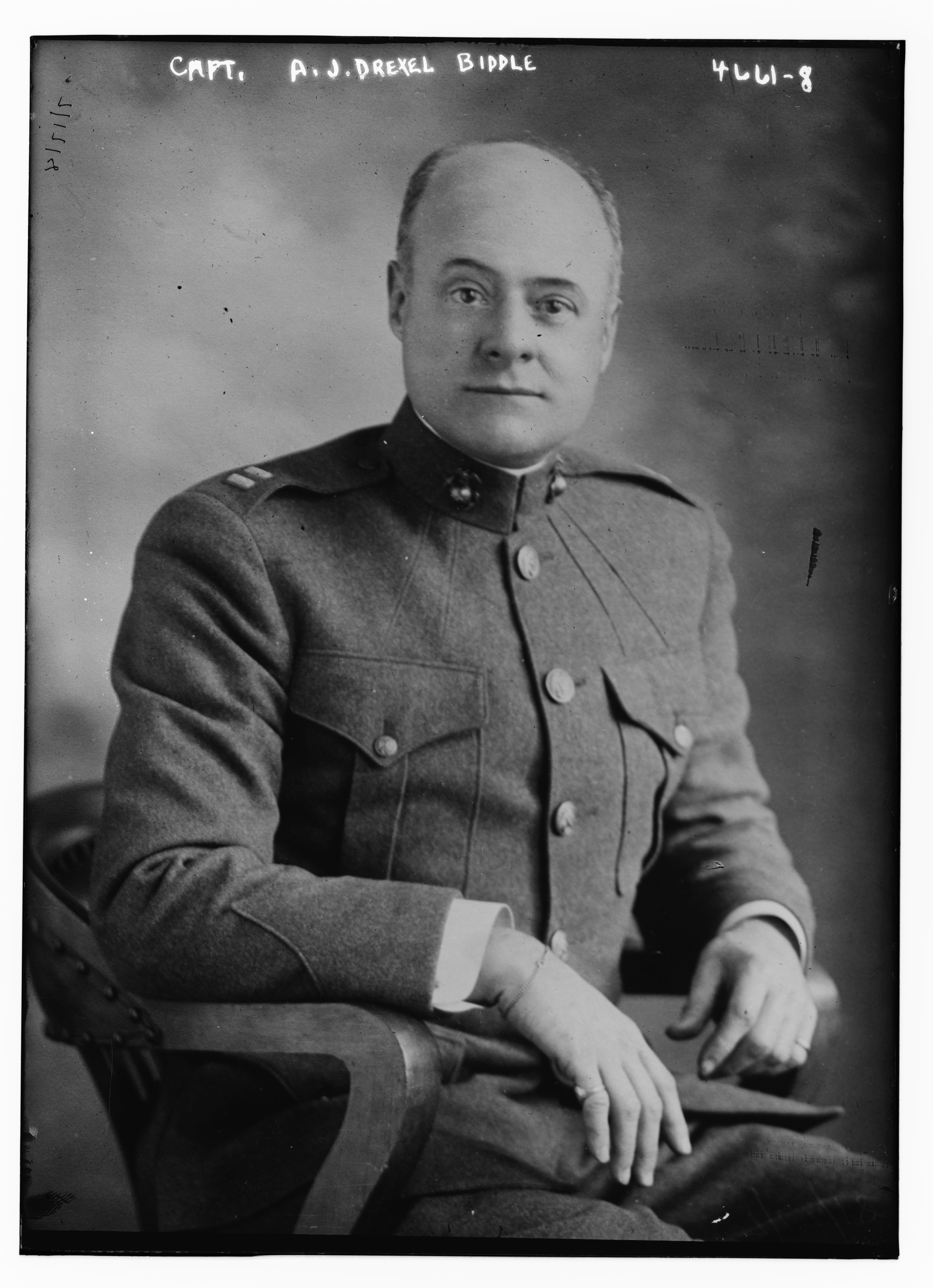 Captain Anthony Joseph Drexel Biddle, Sr. in 1918